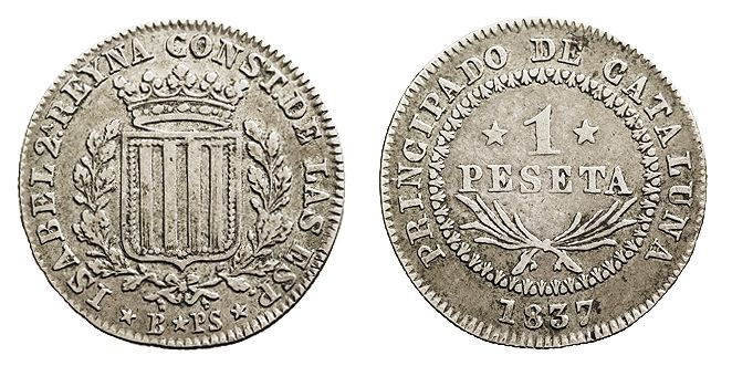 One-peseta silver coin made in Barcelona in 1837, during the reign of Isabel II. Legends: obverse “ISABEL 2ª. REYNA CONST. DE LAS ESP.”, reverse “PRINCIPADO DE CATALUÑA”. Translation: Isabel II constitutional Queen of the Spains / Principality of Catalonia.